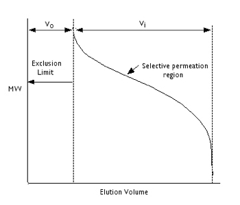 A figure depicting the molecular weight range that can be separated by a column